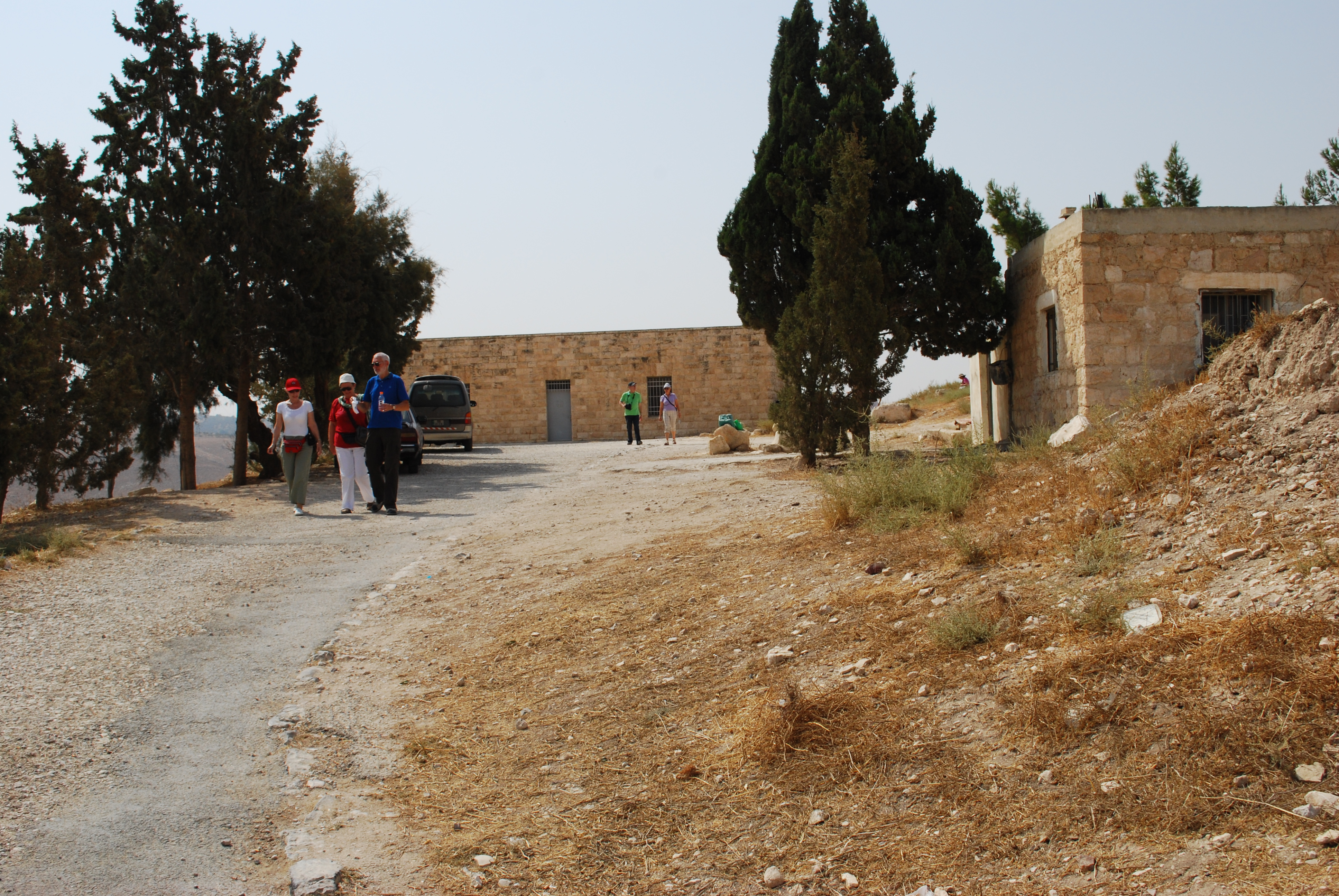 Bâtiment abritant les mosaïques de l'ancienne église de Saint-Lot et Saint-Procope à Khirbet al-Mukhayyat.